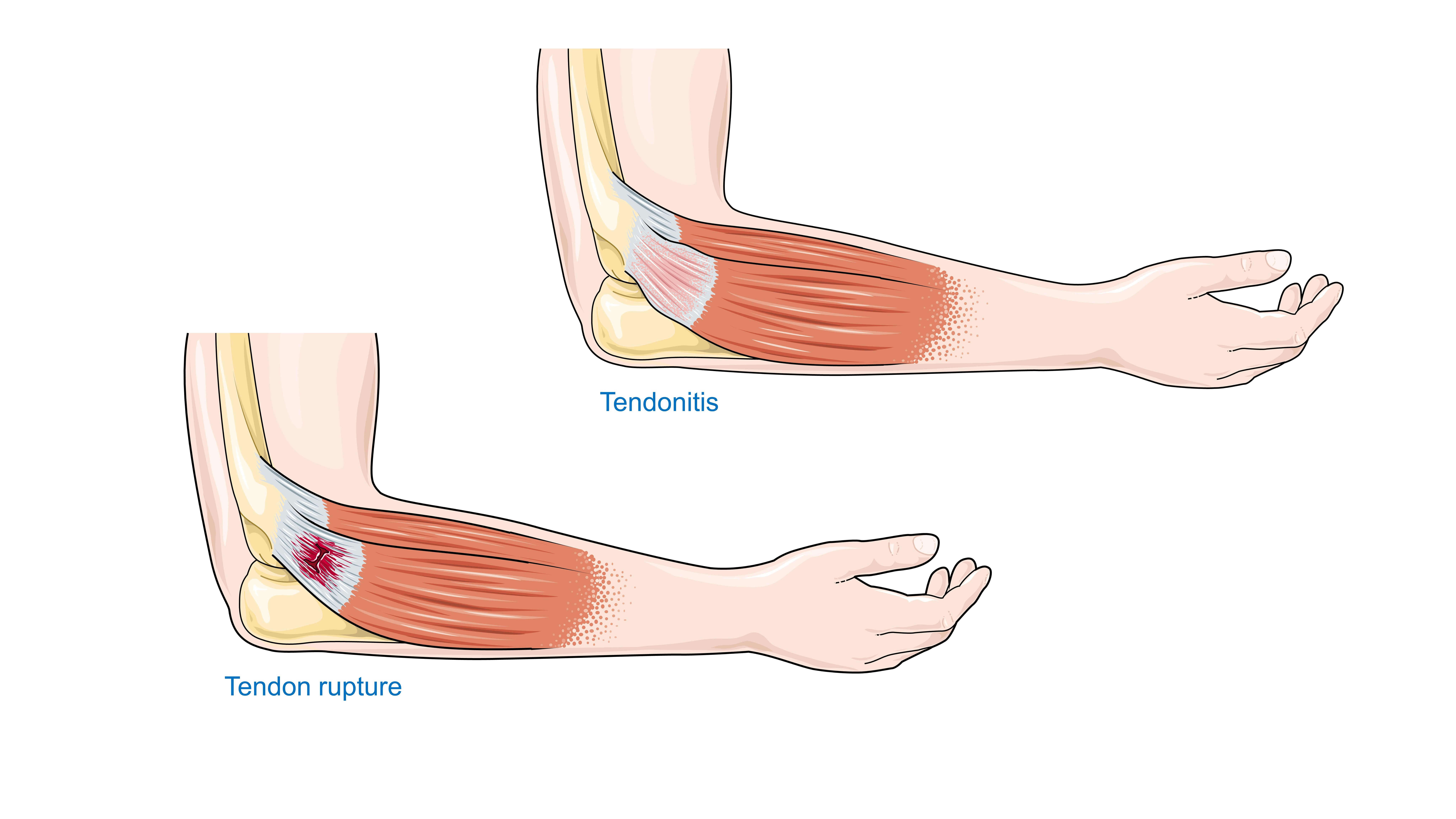 Skeleton and bones - Tendonitis Tendon rupture